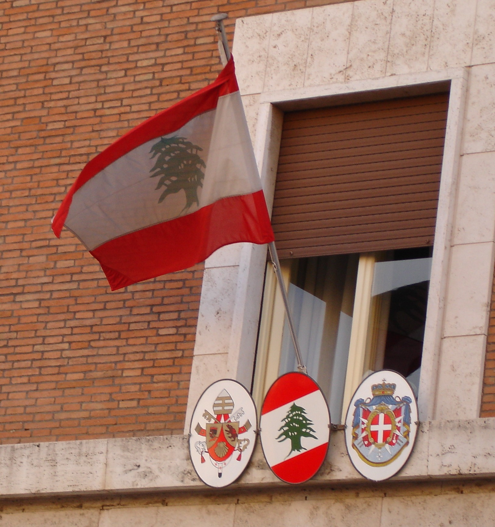 Lebanese embassy at the Holy See and the Sovereign Military Order of Malta in Rome